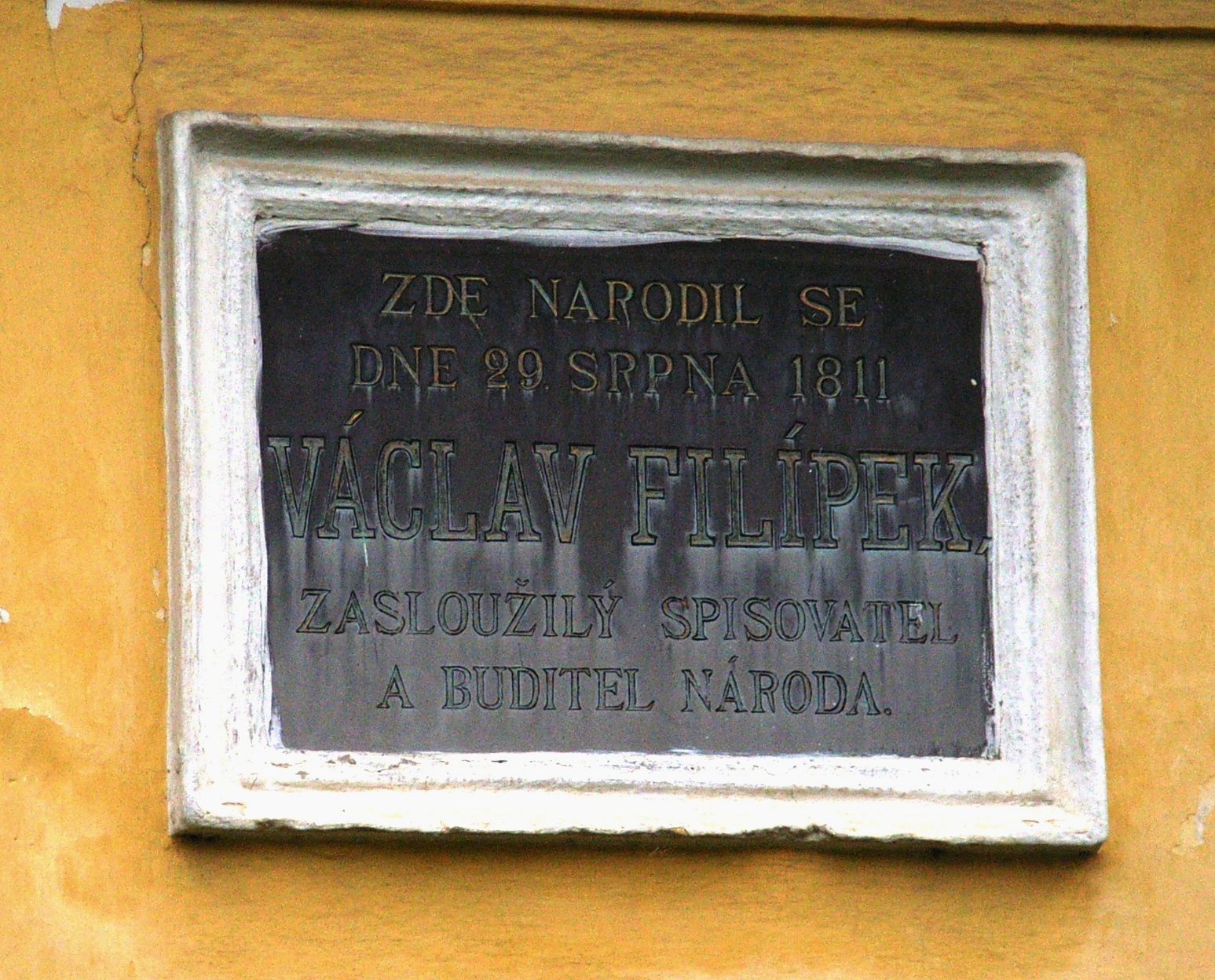 Memorial plaque from 1886 on the birth house of Václav Filípek.